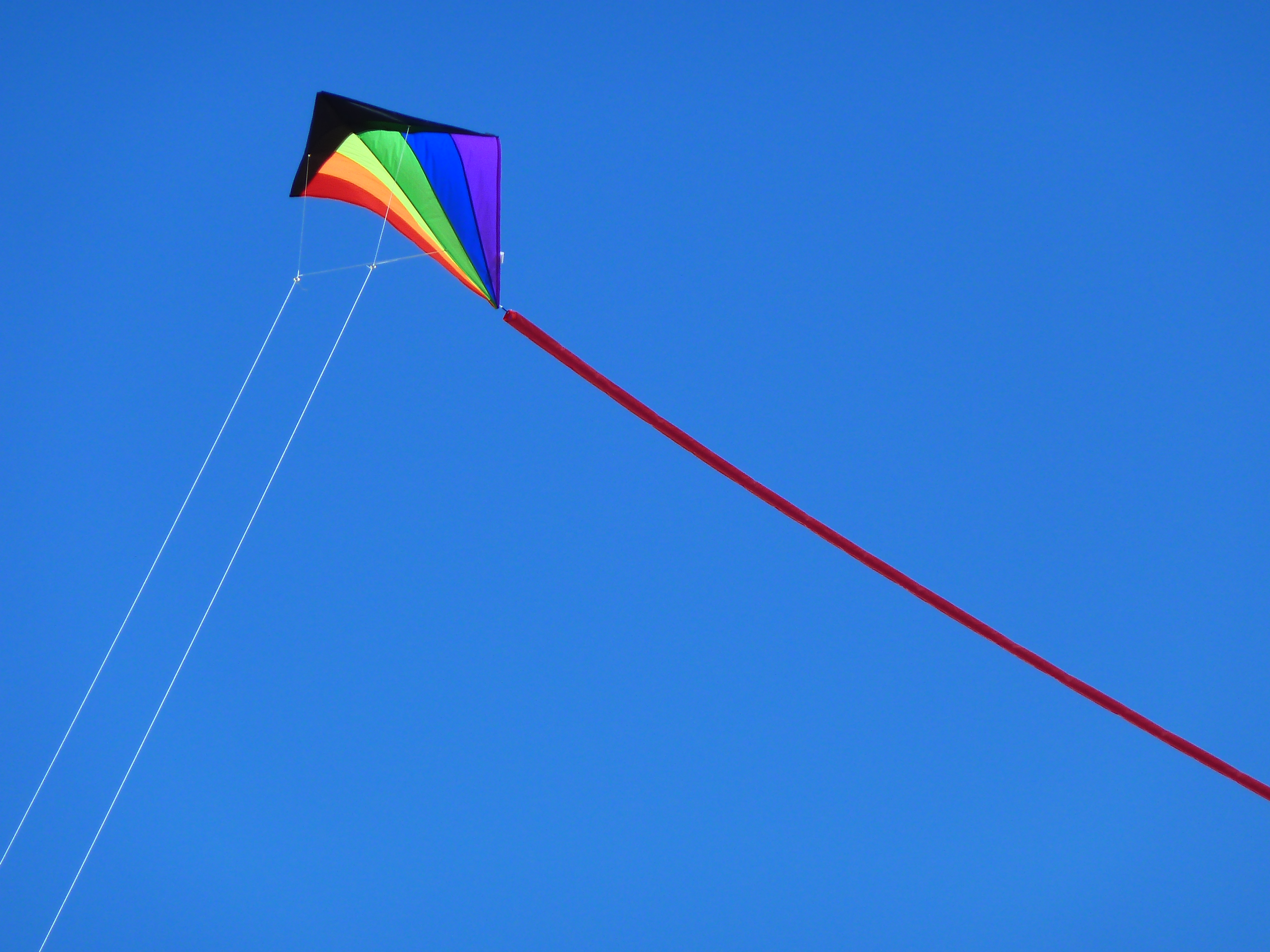 A kite being flown at the Morecambe Kite Festival 2011